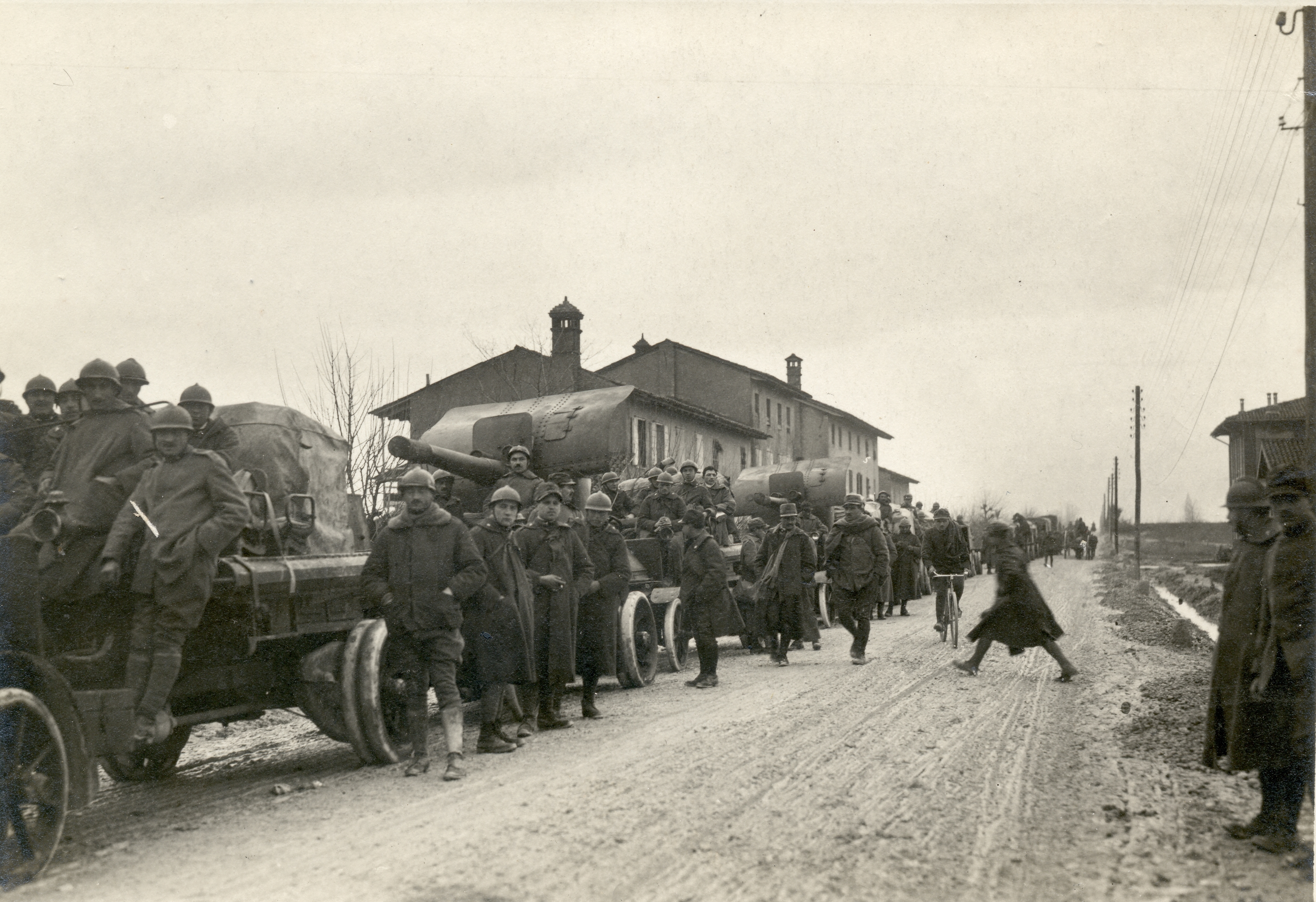 World War 1 - Italian Army: Italian 102/35 anti-air cannons mounted on SPA 9000C trucks during the Battle of Caporetto